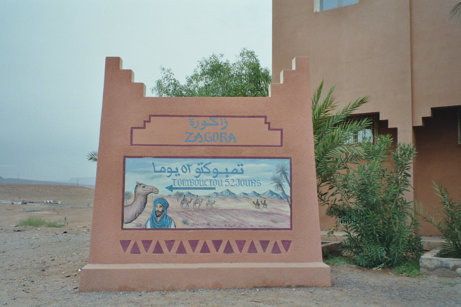 Guidepost in Zagora, Morocco, bearing the inscription "Timbuktu 52 Days" in Arabic and French